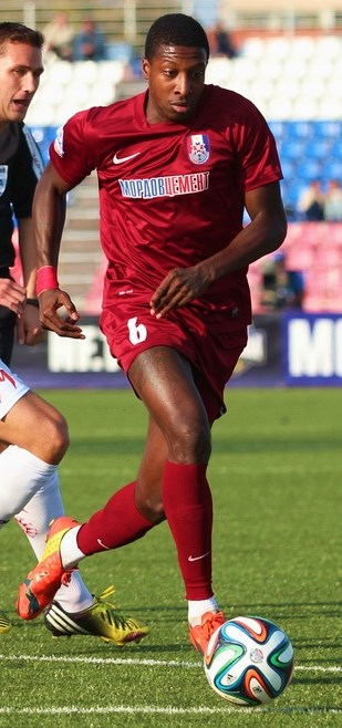 Mitchell Donald